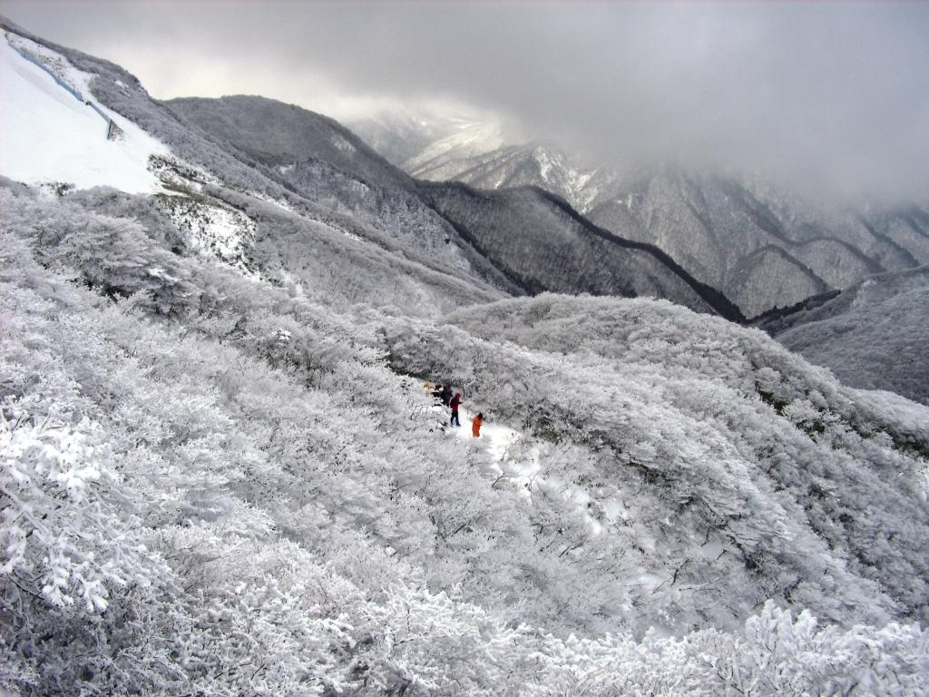 At the top of Mount Gozaisho, Honshu, Japan. Taken by Mass Ave 975.